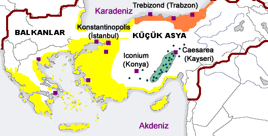 Distribution of Greek dialects during the late Byzantine Emptire, 12-15th centuries. Yellow, late Byzantine Koine Greek, which formed the foundation of Modern Greek; orange, Pontic Greek; green Cappadocian Greek.